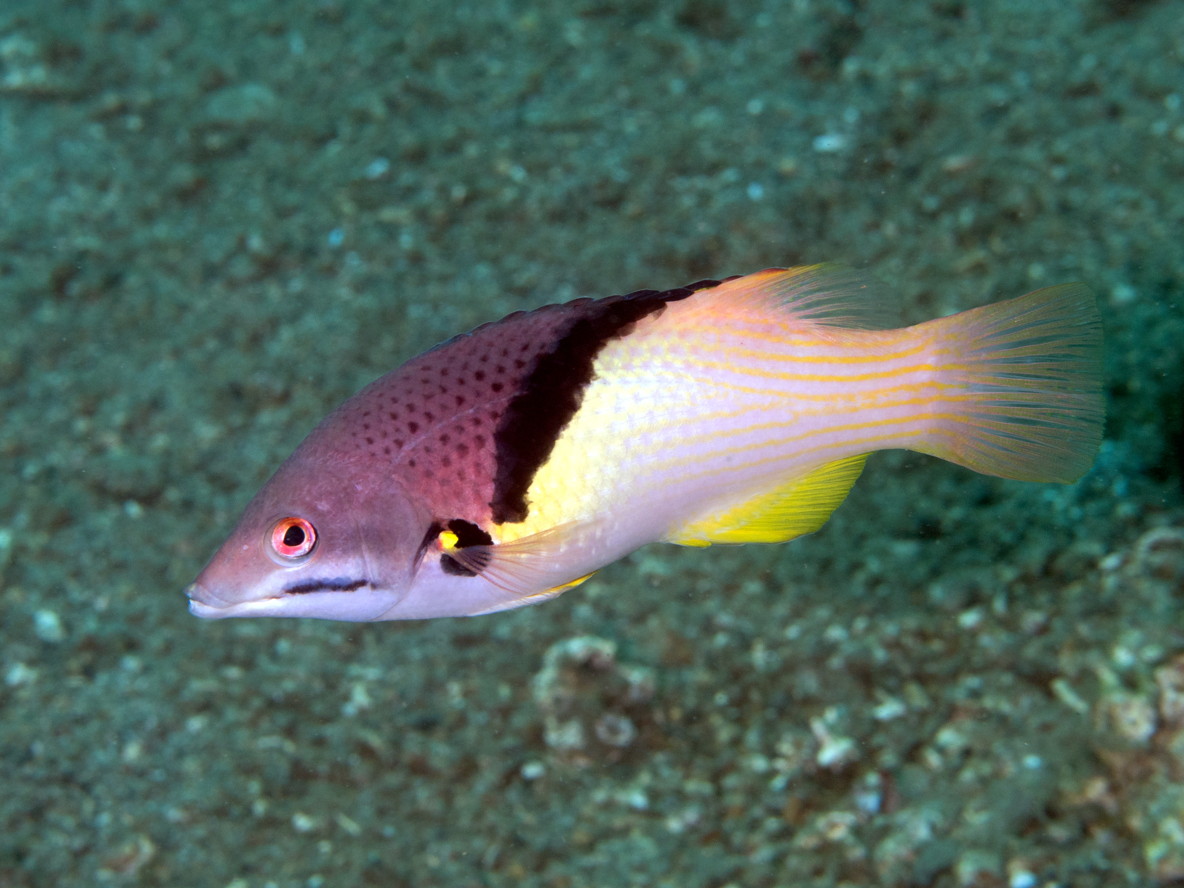 Lembeh, Indonesia - Blackbelt hogfish (Bodianus mesothorax)